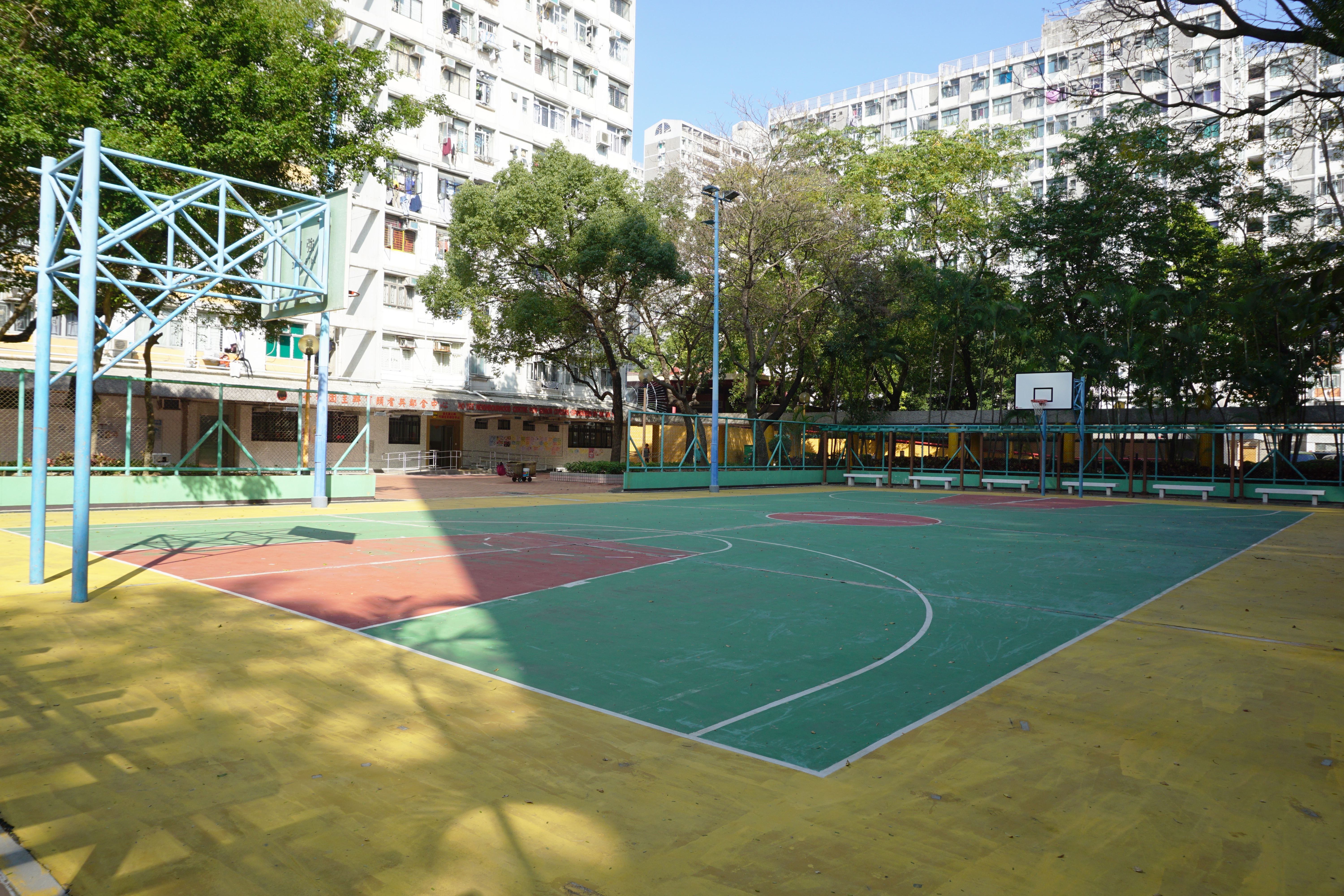 Tung Tau Estate in Wong Tai Sin, Hong Kong.